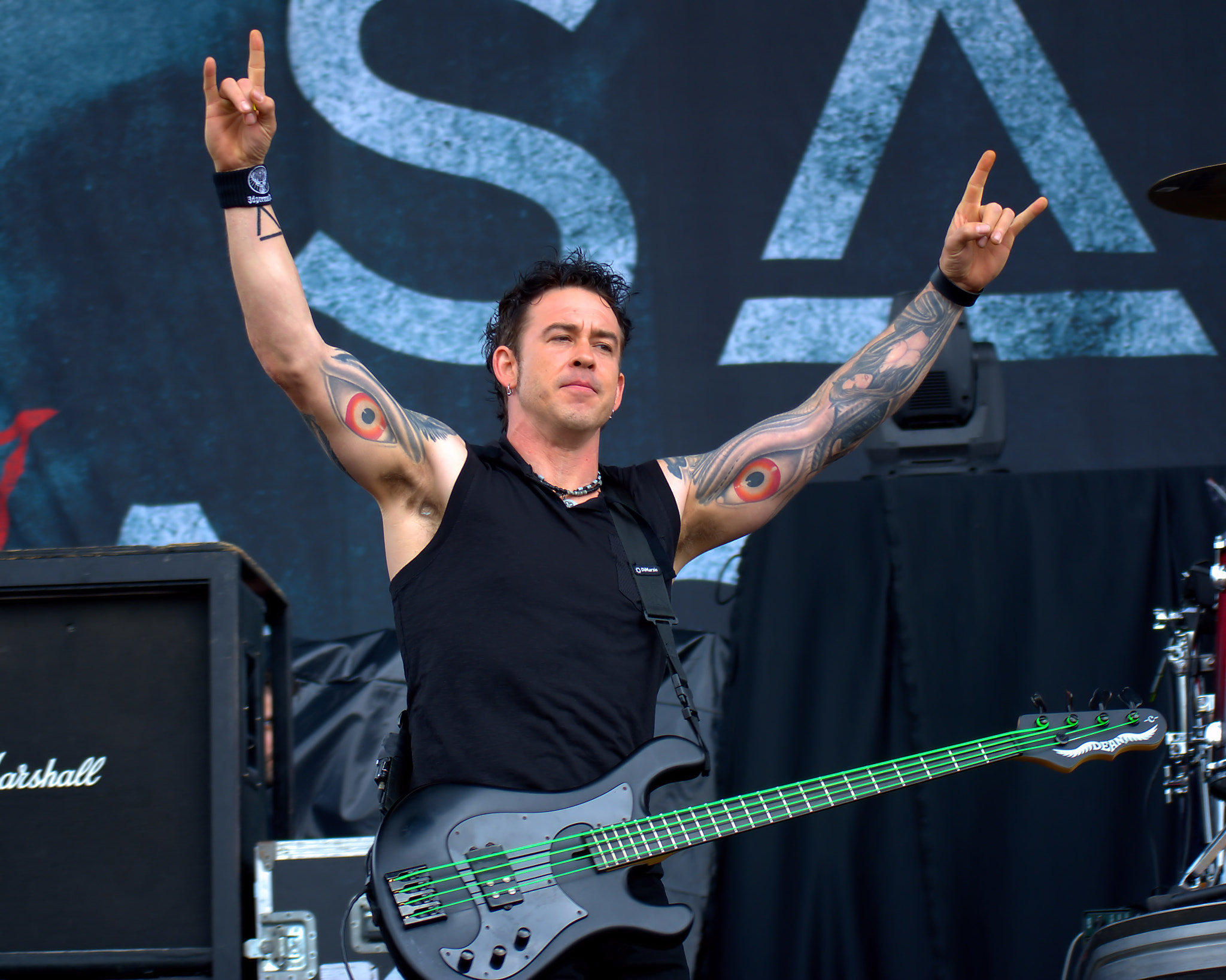 500px provided description: Saint Asonia is a rock supergroup, consisting of ex-Three Days Grace lead vocalist and guitarist Adam Gontier, Staind guitarist Mike Mushok, Eye Empire bass player Corey Lowery and former Finger Eleven drummer Rich Beddoe. [#concert ,#live ,#band ,#ohio ,#concert photography ,#columbus ohio ,#Franklin County ,#Rock on the Range ,#ROTR2015 ,#AXSROTR ,#Saint Asonia ,#csnphotograghy]